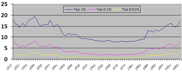 Share of pre-tax household income held by the top 1%, top 0.1% and top 0.01% in the United States